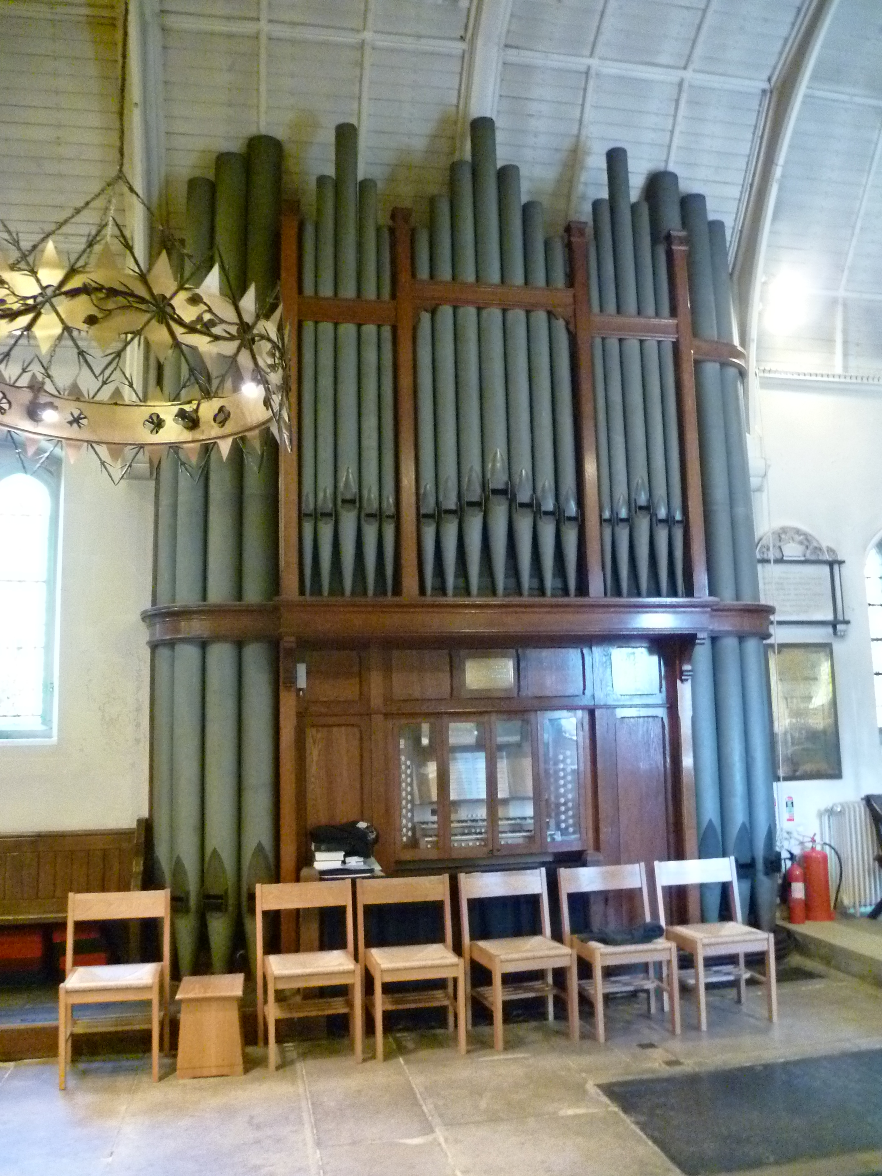 St Mary the Virgin, East Barnet